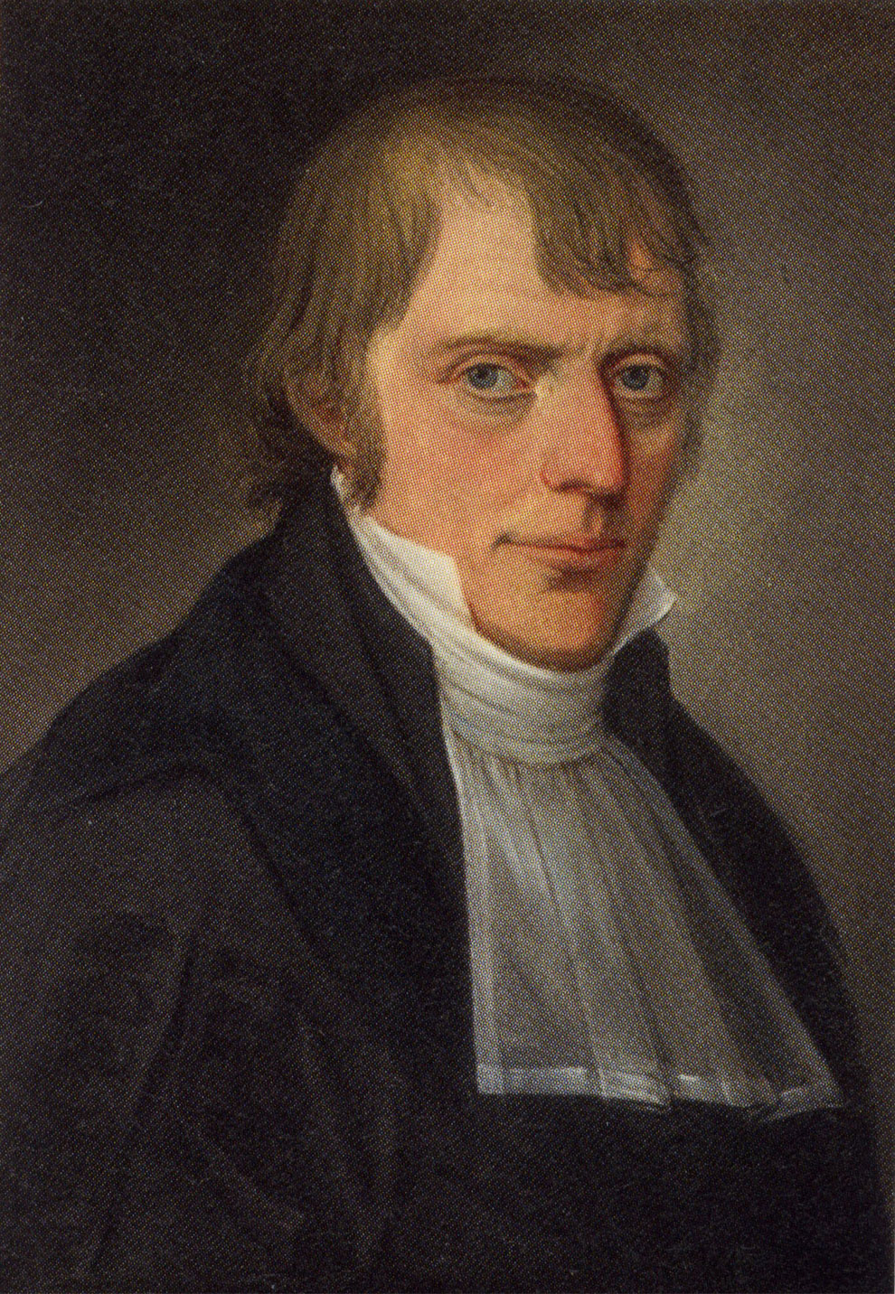 Portrait of Jacobus Albertus Uilkens (1772-1825)